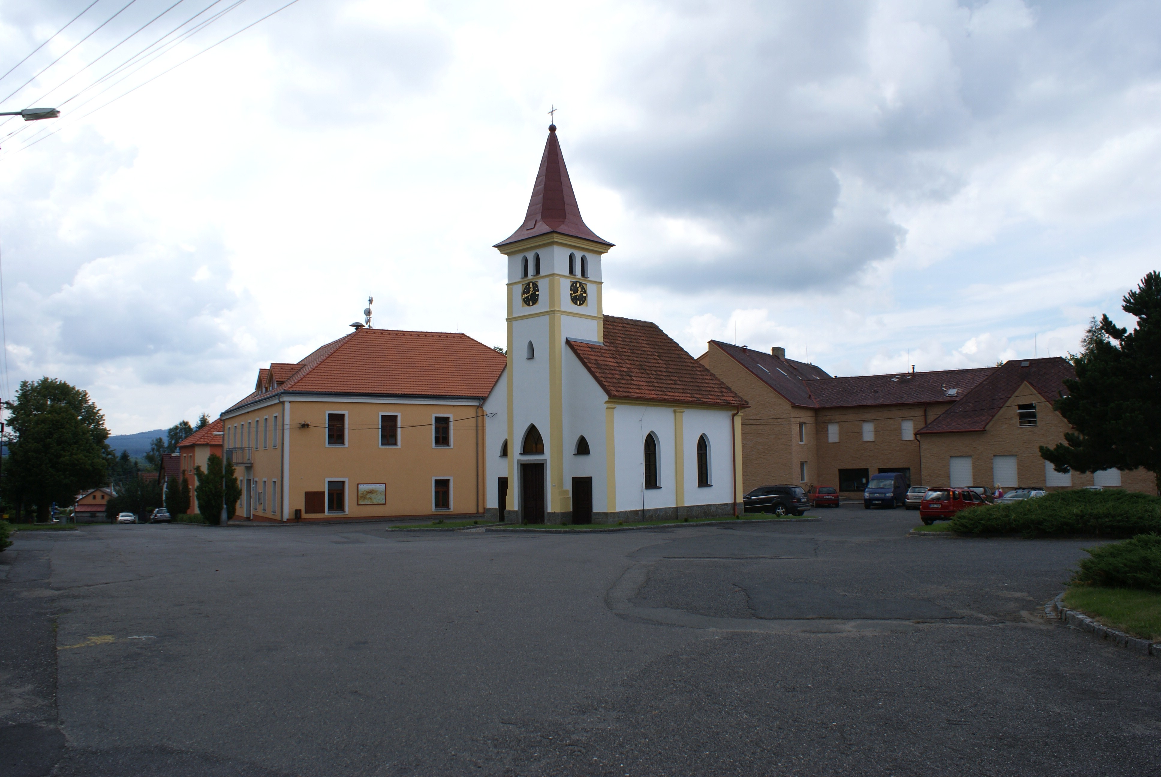 Věšín, Příbram District, Czech Republic, St Francis of Assisi chapel